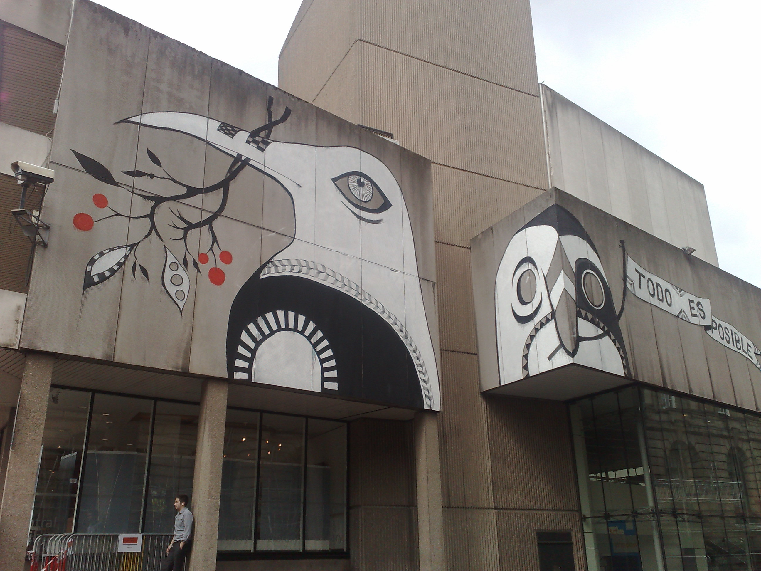 Painting of birds by Lucy McLauchlan on Birmingham Central Library. Taken with a Nokia N95.